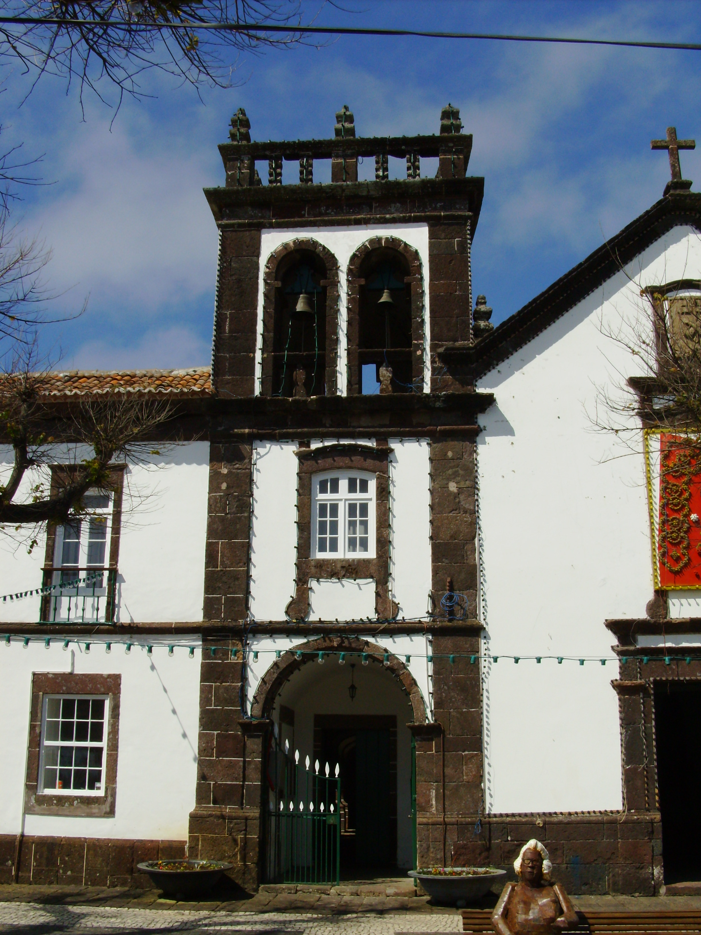 The bell tower and portico to the Convent of São Francisco (alongside the Chapel of Nossa Senhora da Vitória, Vila do Porto, Santa Maria (Azores), Portugal